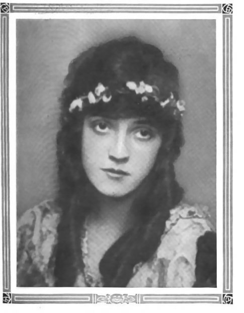 Actress Miriam Cooper